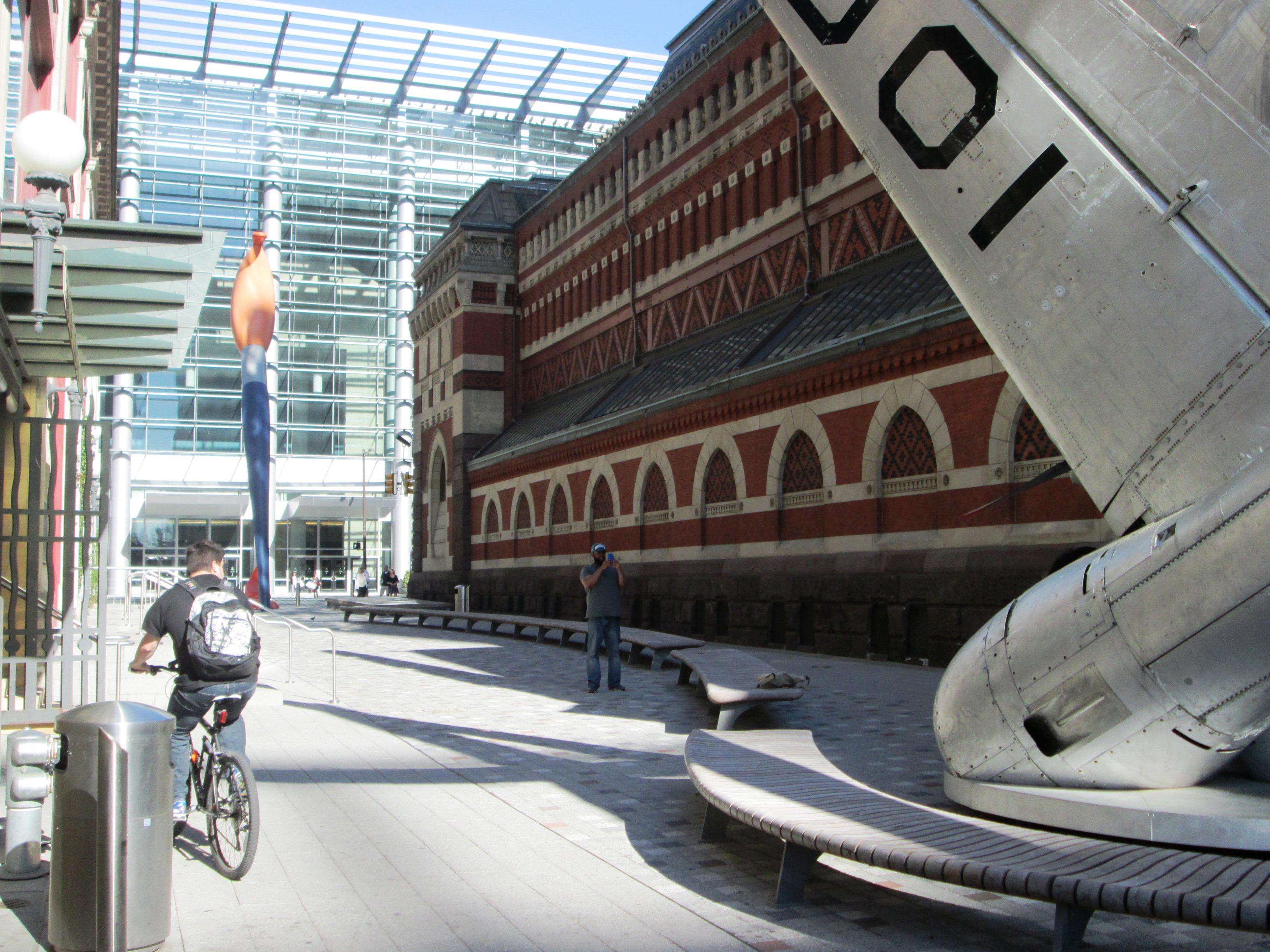 The Pennsylvania Academy of the Fine Arts building at Broad and Cherry Streets in the Center City area of Philadelphia was built from 1872-1876 and was designed by Frank Furness and George Hewitt in a combination of historical styles. It was restored in 1976, and is a National Historic Landmark. (Source: Philadelphia Architecture: A Guide to the City) This image shows the Cherry Street walkway between the original (Furness-Hewitt) building (right) and the Samuel M.V. Hamilton Building (left), a former Federal building and automobile factory purchased by the museum in 2002 and opened in 2006. In the walkway are two installations; in the foreground is the Grumman Greenhouse by Jordan Griska, made from a Grumman S2F aircraft, and, in the background, Claes Oldenburg's Paint Torch (2011). Across the street is the Broad Street entrance to the Philadelphia Convention Center (2011).